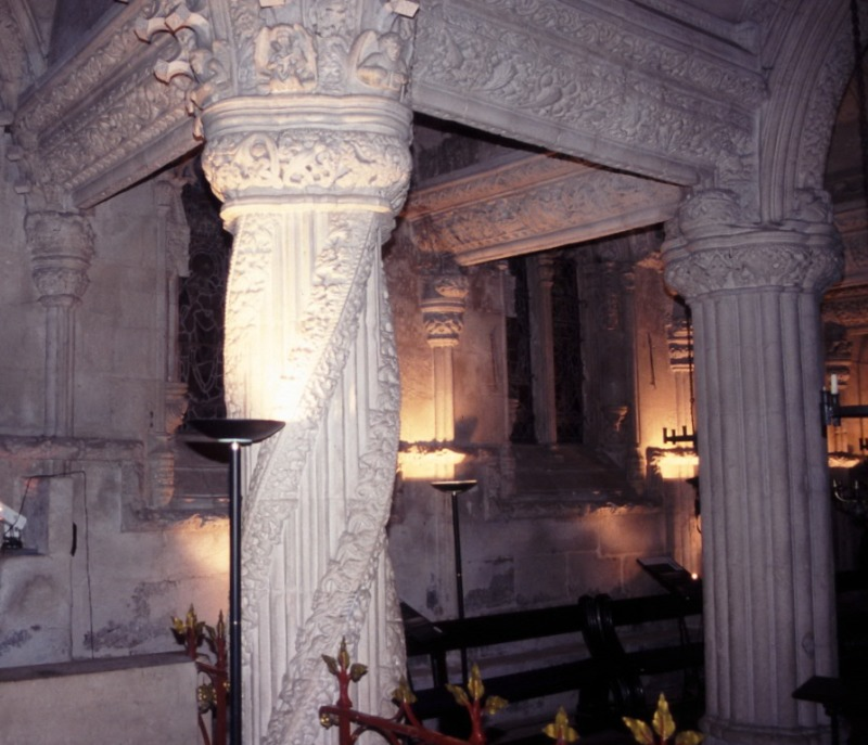 Rosslyn Chapel, Midlothian, Scotland - Apprentice Pillar